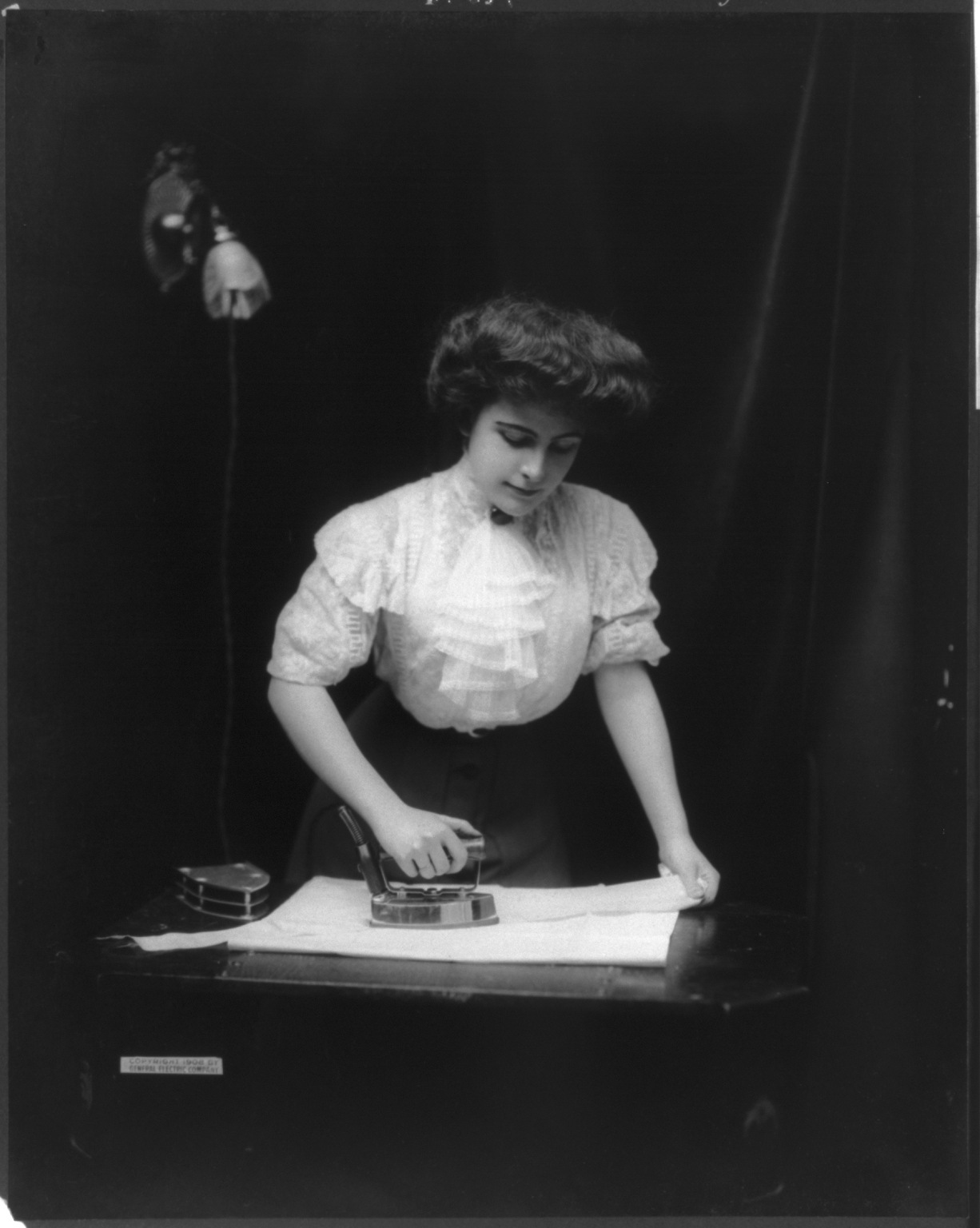 Title: Woman using electric iron plugged into light socket Abstract/medium: 1 photographic print.